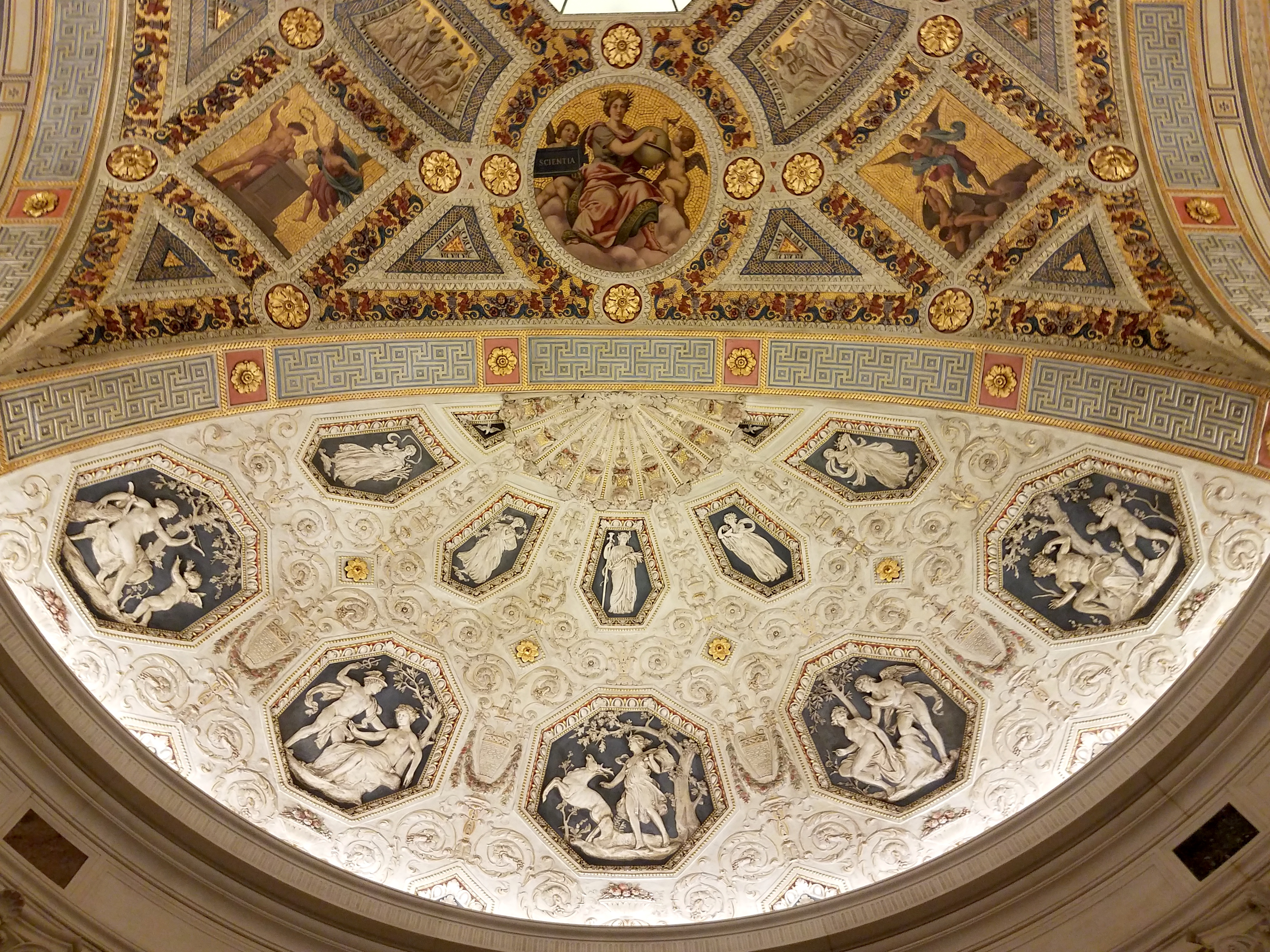 Detail of Rotunda ceiling, Morgan Library & Museum, New York City